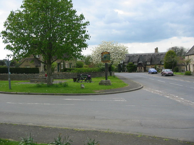 Marholm Village Centre. Marholm is a pretty little village just outside the city of Peterborough. The view has the essentials of a typical village scene - the village green with its sign, war memorial and a pub in the distance.